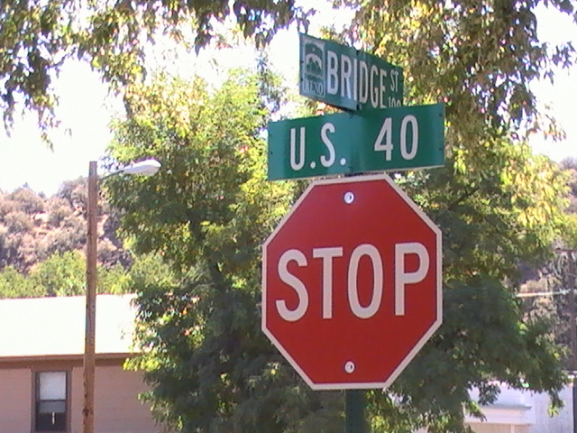 A traffic sign assembly found at 3rd St (Nevada State Route 425) and Bridge St in the center of Verdi, Nevada. 3rd St carried U.S. Route 40 Nevada through Verdi up until the mid 1960s. However, some street signs in the town, such as the one pictured, still say "U.S. 40" as of August 2008.